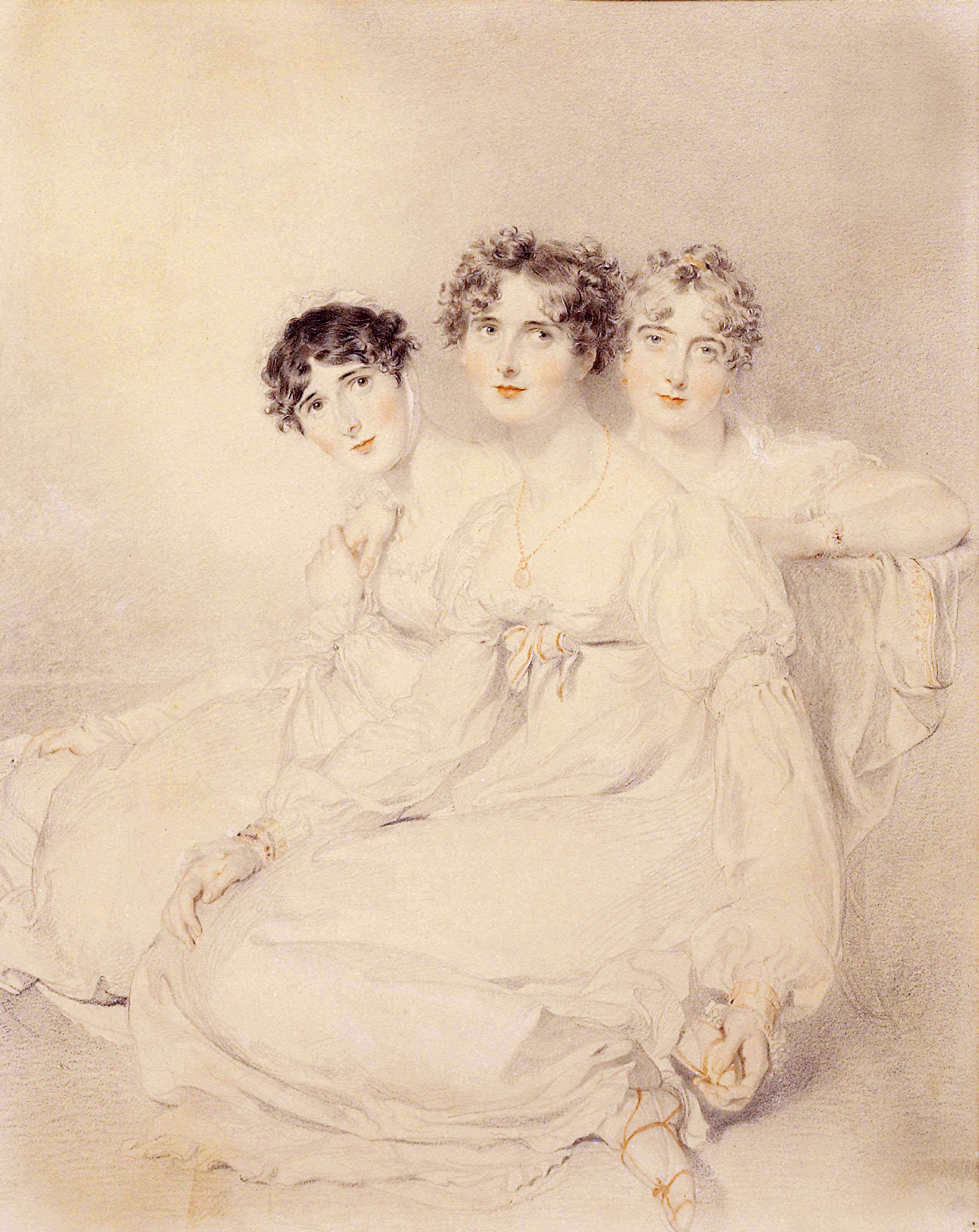 The Wellesley-Pole sisters, daughters of William Wellesley-Pole, 1st Baron Maryborough, and 3rd Earl of Mornington (1763-1845): l.: Lady Mary Charlotte Anne (d. 1845, wife of Sir Charles Bagot) c.: Lady Emily Harriet (1792-1881, wife of Lord FitzRoy Somerset, later 1st Baron Raglan) r.: Lady Priscilla Anne (1793-1879, wife of John, Lord Burghersh, later 11th Earl of Westmorland) black and red chalk, pink wash on paper, watermark J Whatman/1810 48 x 38.4 cm signed l.l.: T Lawrence 1814 signed l.r.: T.L./1814